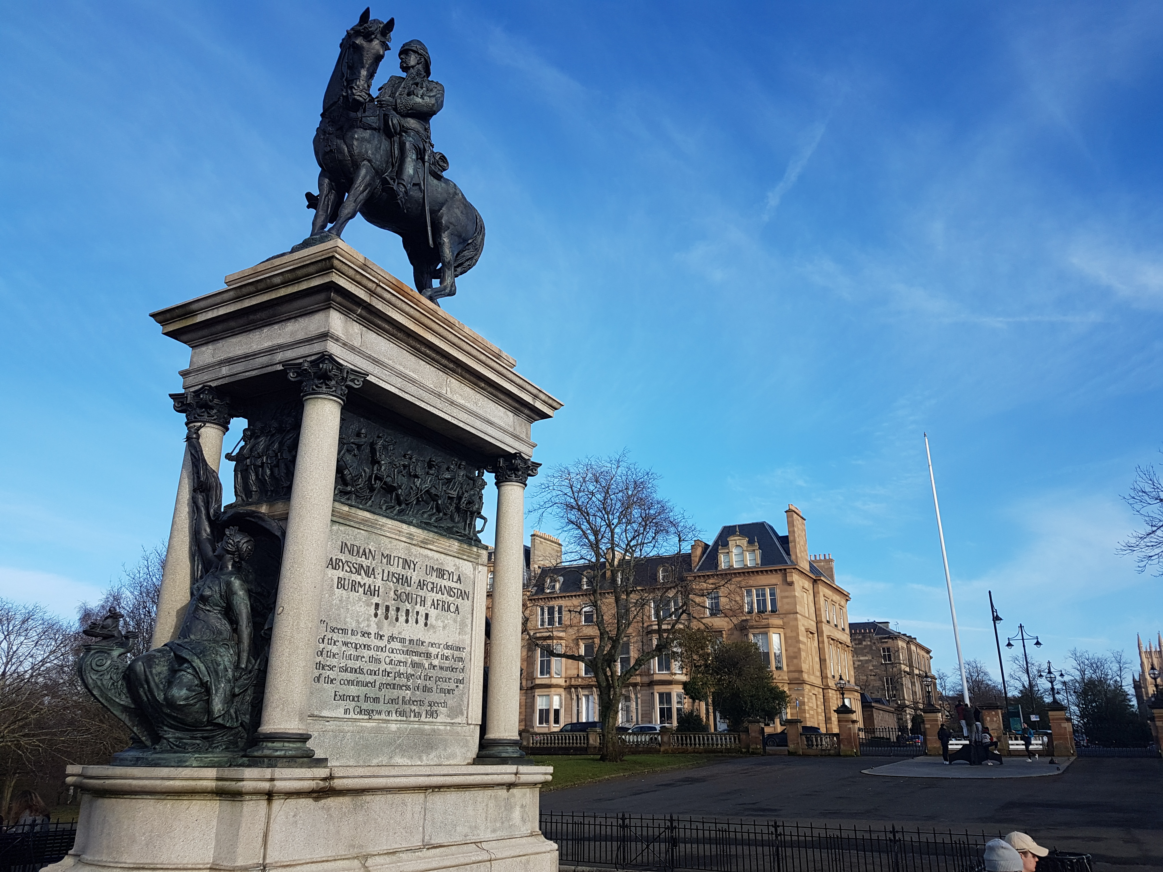 The most famous statue in Kelvingrove Park, Glasgow, has been described as "the finest equestrian statue of modern times". Executed by Henry Poole, this structure is an exact duplicate of Harry Bates equestrian masterpiece which originally stood in the Maidan in Calcutta then moved in 1969 to Robert Park, Artillery Centre, Nasik near Mumbai. This bronze shows Lord Frederick Sleigh Roberts VC on his favourite Arab charger 'Volonel'.